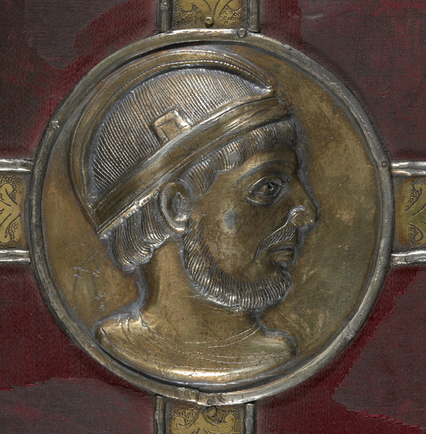 A silver gilt medallion, probably representing the Emperor Lothaire, in profile, wearing a crown or helmet of primitive pattern. This is enclosed in a framework of silver-gilt with flat conventional leaf pattern, probably added between the 10th and 11th centuries. From the binding of the Lothaire Psalter. British Library Catalogue entry: Add MS 37768 - Online viewer (Info) - "Online Gallery" search - MSS blog search - "Images online" search